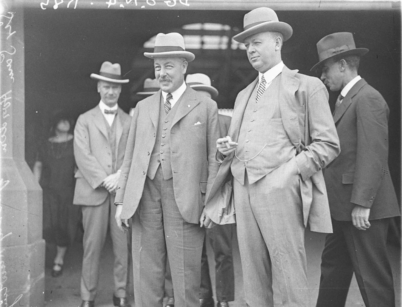 Justice Rawlings and Sir Sam Hordern